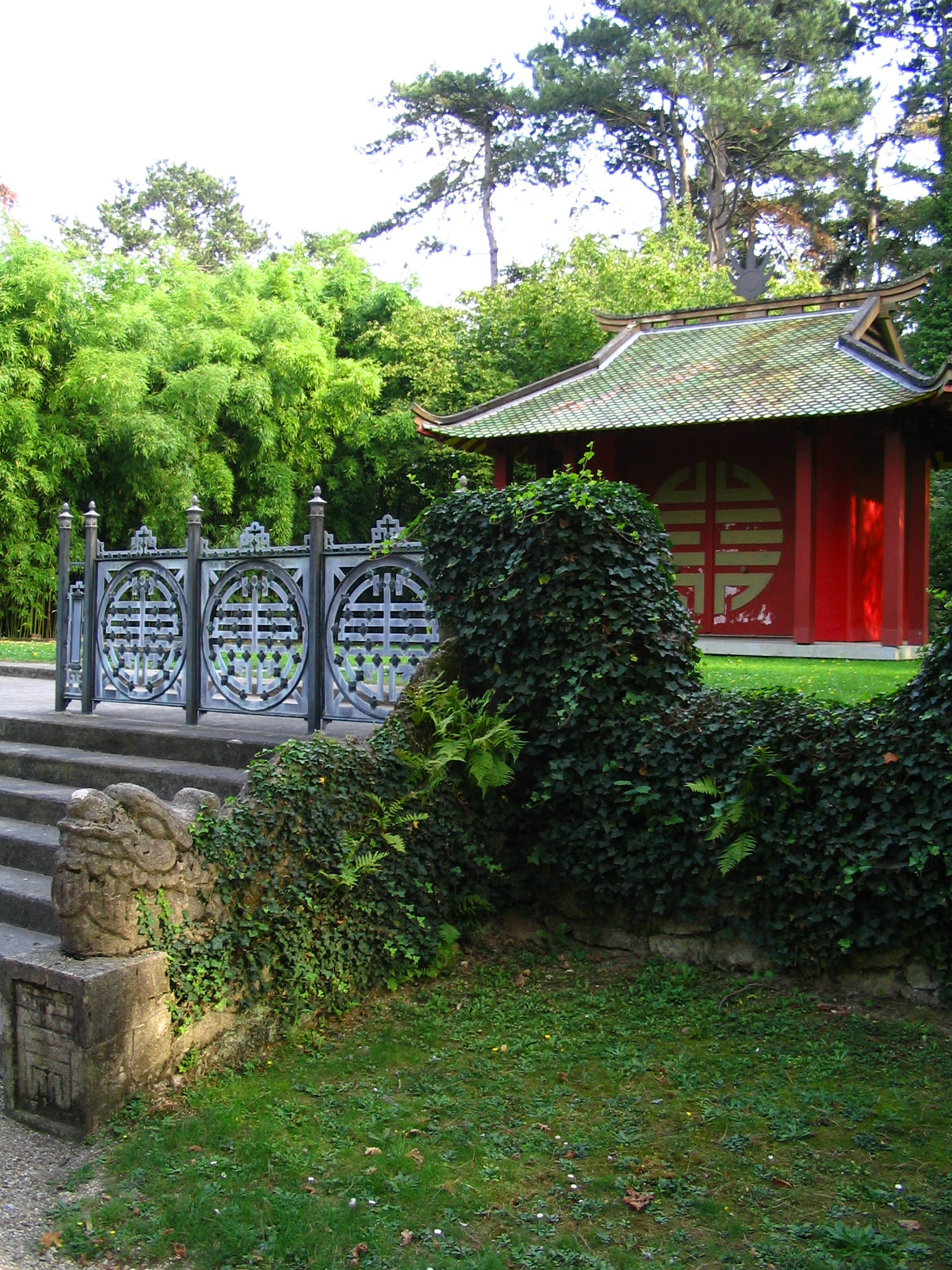 Jardin Tropical de Paris - Esplanade du Dhin - France Tropical Garden in Paris, France Auteur/author: P.Charpiat - 2006 Garden